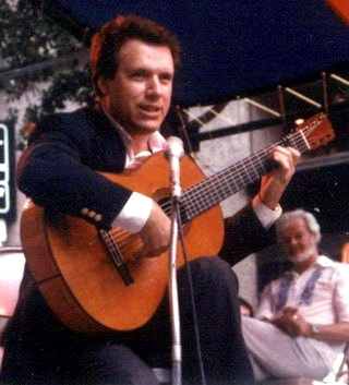 Ronald Radford, Flamenco guitarist at Mayfest in Tulsa, Oklahoma c.1993(?) Original too light/washed-out. But then, it's only a small part of the original. Got Anita Bryant in another part of the same pic LOL!